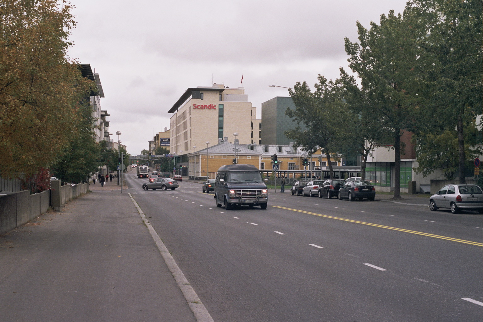 Aleksanterinkatu, a street in central Oulu, Finland. Seen in the photo is the local Scandic hotel, among others.